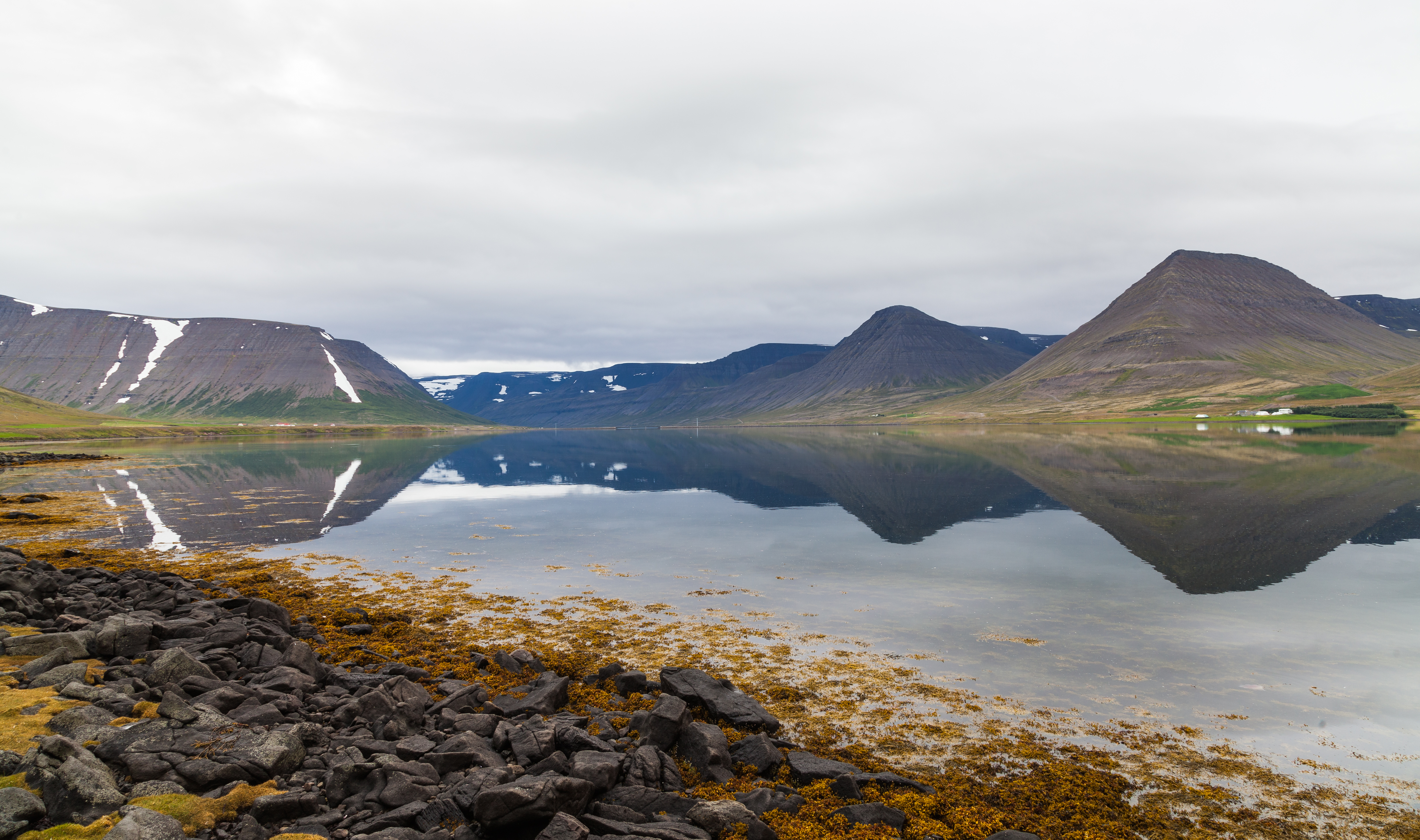 Dýrafjörður, Vestfirðir, Iceland